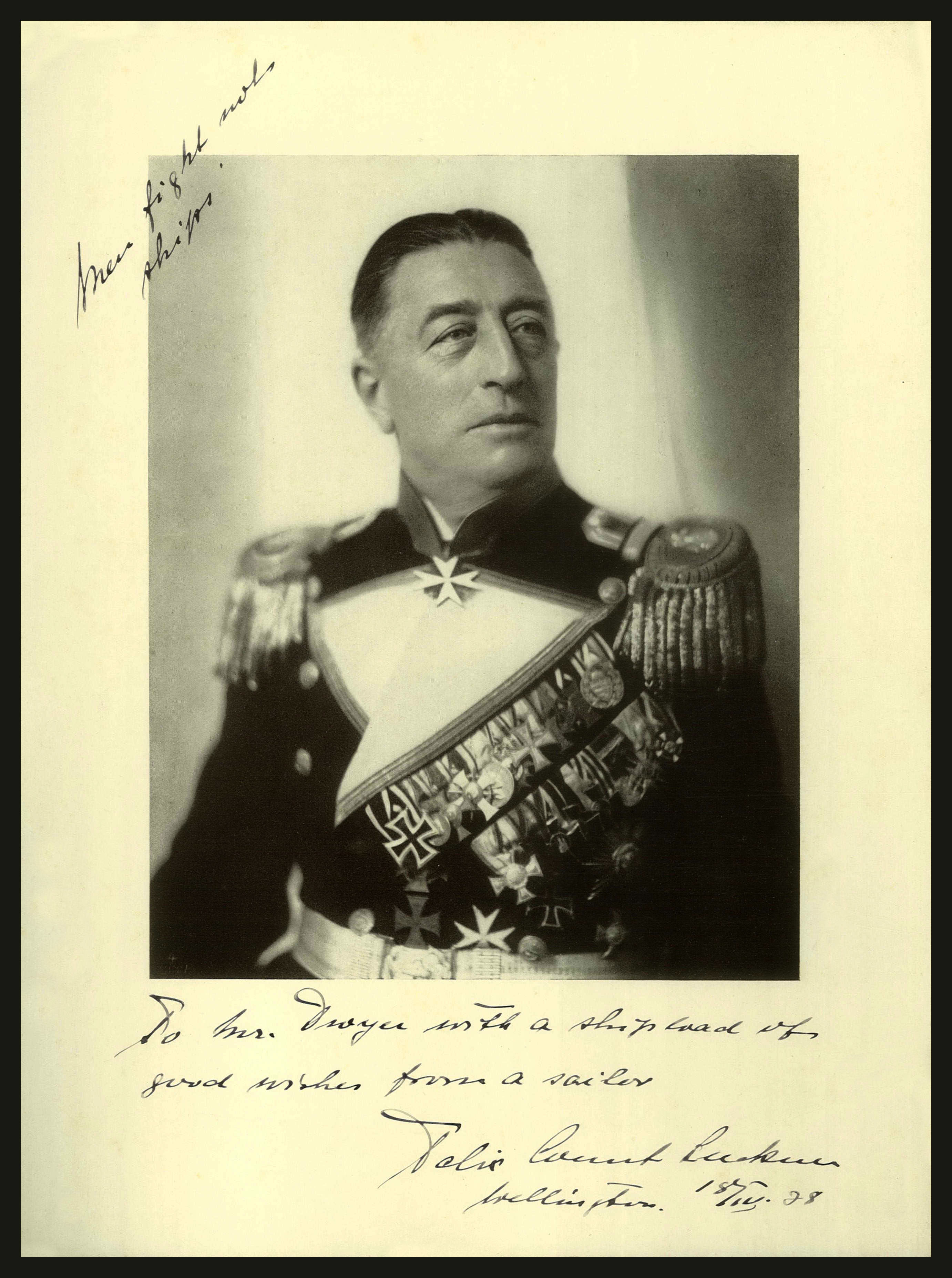 On 7 October 1917 Felix Graf von Luckner – the notorious Sea-Devil – was imprisoned at a camp on Motuihe Island in the Hauraki Gulf. Von Luckner, captain of the German raider SMS Seeadler sank 14 Allied ships in 1917. He was an enemy with a kind heart as although he destroyed 64,000 tons of shipping he also made sure that the crews were safely off the ships before he sank them. Setting sail with hundreds of Allied prisoners created some challenges but he was eventually able to offload them onto a captured French ship and send them to Rio de Janeiro. The Seeadler was wrecked near Tahiti during a rest break for the crew. van Luckner and some of his men sailed for Fiji in an open boat, planning to capture a ship. Instead they themselves were captured and sent to the prisoner-of-war camp on Motuihe Island. The enterprising von Luckner managed to escape a few weeks later later, seizing a scow and heading north only to be recaptured in the Kermadec Islands. The following year the Women’s Anti-German League heard that von Luckner was plotting to escape again – their informant a mystery woman whose name they refused to reveal to the police. Rumours of a raider hovering nearby had authorities nervous but von Luckner did not escape again. He bore his country of imprisonment no malice, returning to New Zealand in the 1930s to talk about his exploits. He may not have charmed the Women’s Anti-German League but his post-war audiences were said to love his stories. Shown here is the photograph of himself he sent in 1928 to Francis Dwyer, Assistant New Zealand Army Secretary. Archives Reference: AAZI 19575 Dwyer2 1/1 For more information For updates on our On This Day series and news from Archives New Zealand, follow us on Twitter Material supplied by Archives New Zealand Further information can be found at